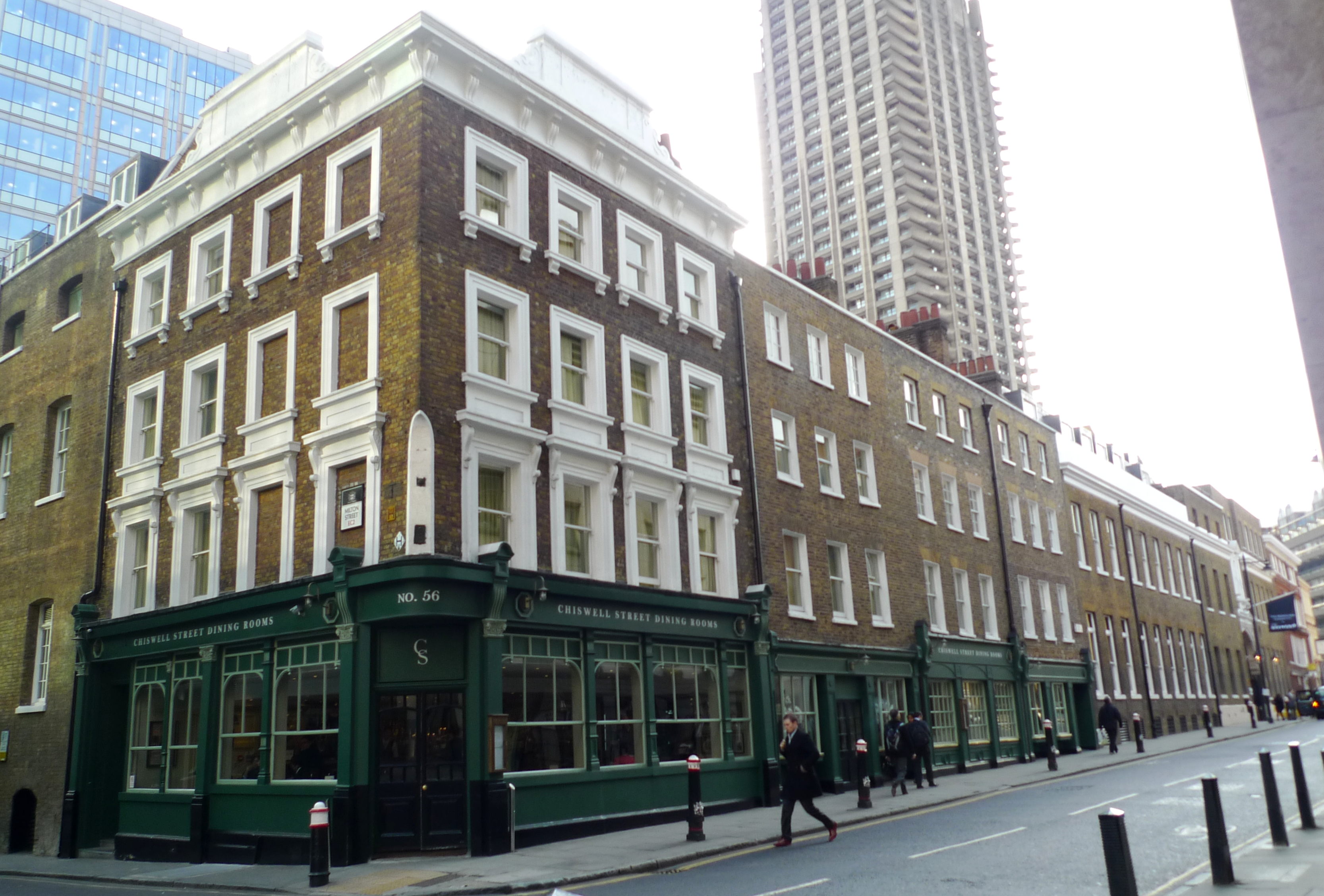 This former pub is at the corner of what was once the Whitbread brewery. It has been redeveloped as apartments and a hotel, and this site (and the one at the other corner, to the far right of this photo, now The Jugged Hare) reopened in 2011 under the ETM Group, as a restaurant. (Earlier photo of it, closed and under construction.) Address: 56 Chiswell Street. Former Name(s): St Paul's Tavern; Hog's Head. Owner: ETM Group (website); Greene King (former); Whitbread [Hogshead] (former). Links: London Eating London Pubology (The St Paul's Tavern) --- The Independent [John Walsh]